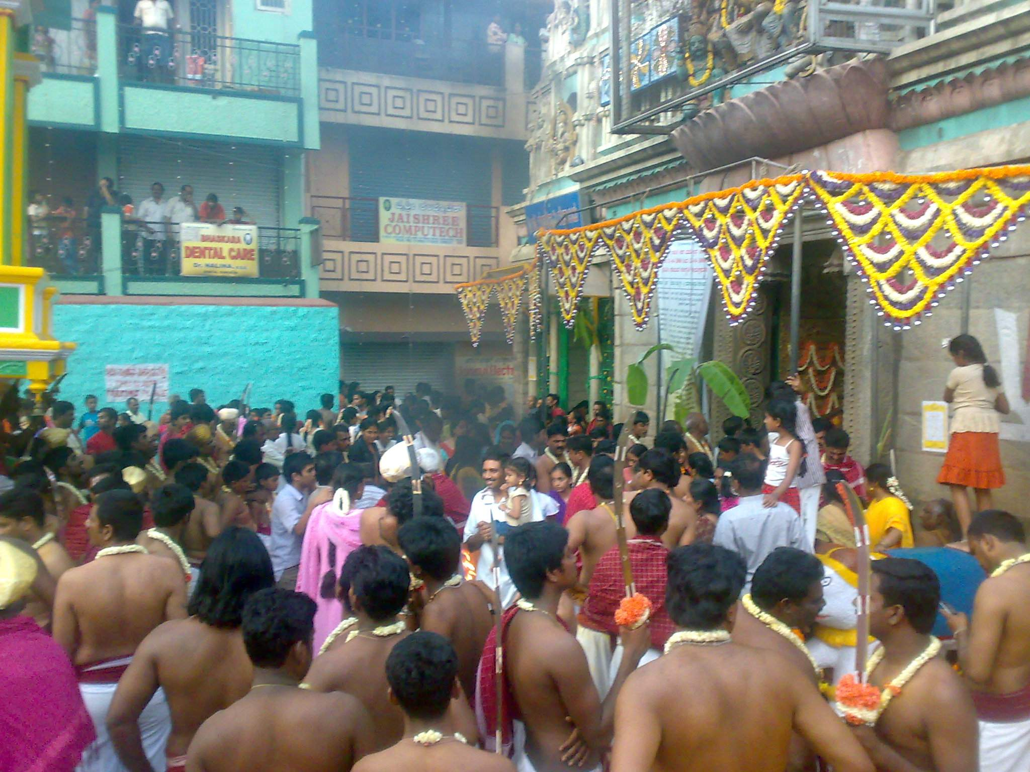 Thigala devotees as seen in "Pache Kargu" or hasi karaga gather here in huge masses